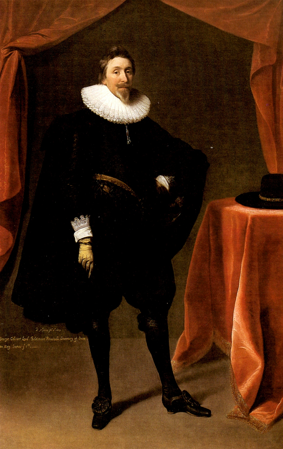 George Calvert Source: Jackson-Stops, Gervase. 1985. The Treasure houses of Britain: five hundred years of private patronage and art collecting. Washington [D.C.]: National Gallery of Art., p. 137.